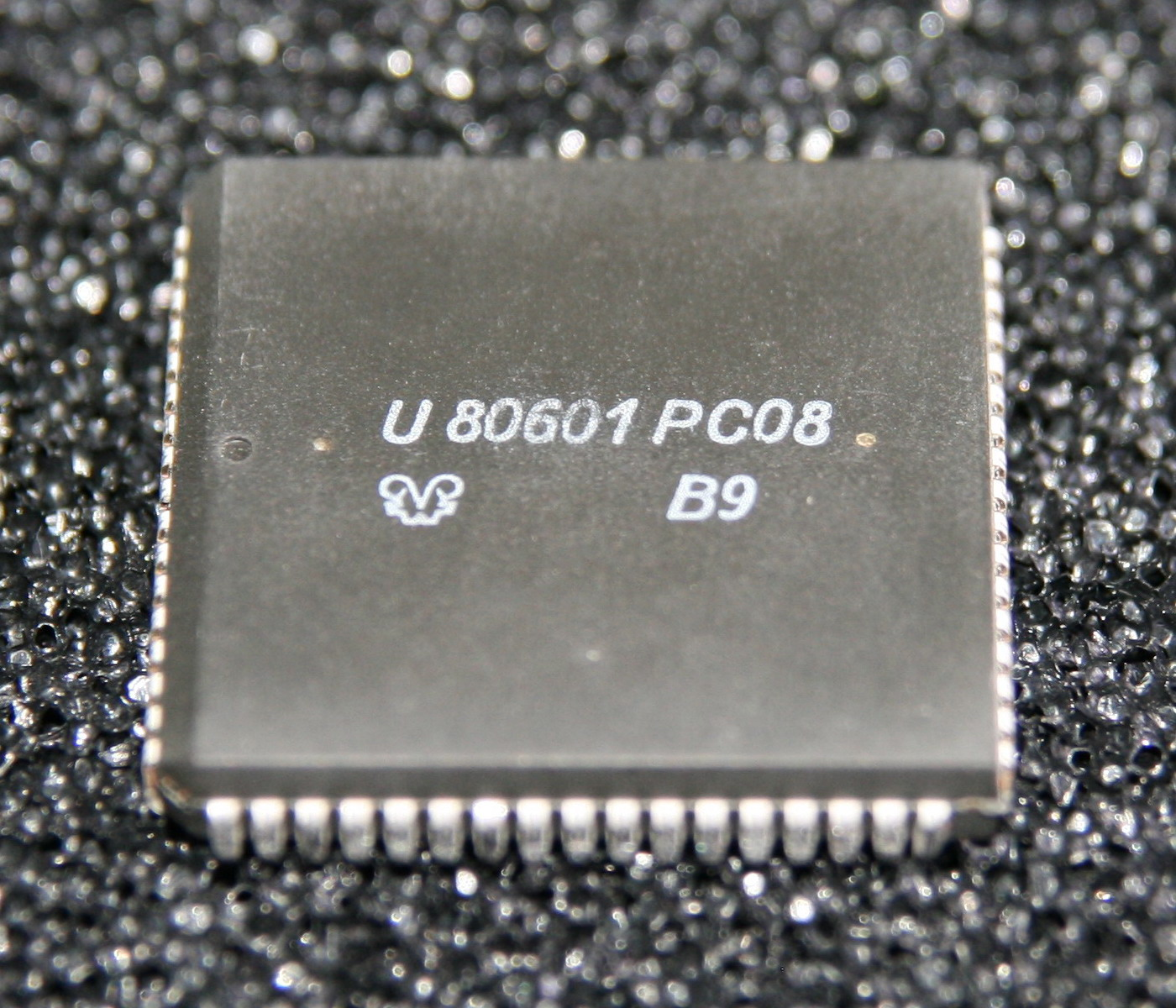 Microprocessor MME U80601PC08 - Intel 80286 Clone, developed starting from 1986 in the GDR (East Germany), date of production 09/1991